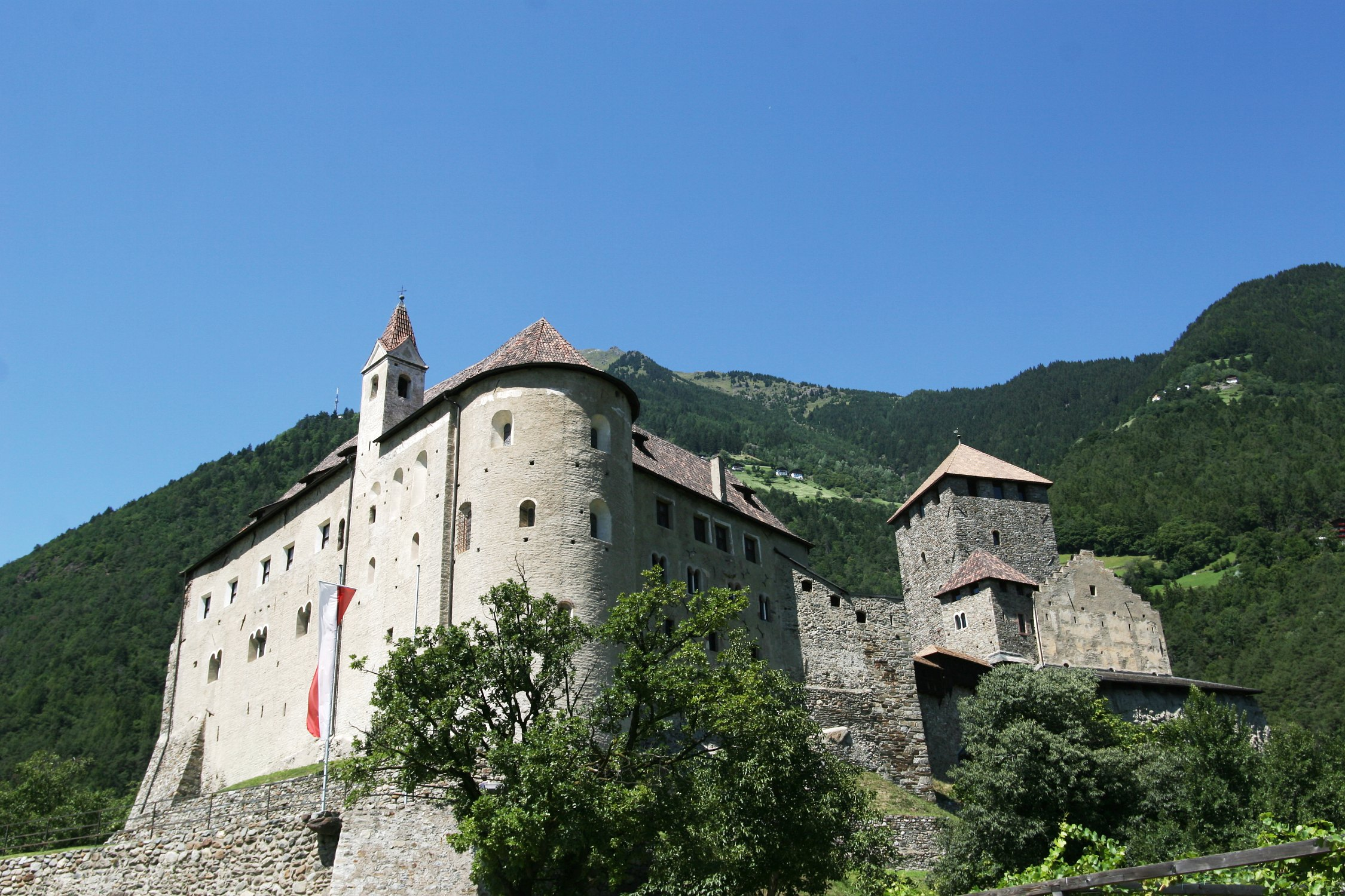 Outside view of Tirol Castle near Meran in South Tyrol